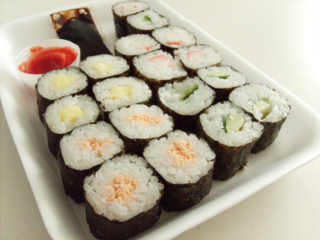 Ok, so this is actually a follow-up to yesterday's japanese food takeout night, and it's also becoming tradition: I always buy extra sushi so I can have some on Thurday. Yesterday I also bought some bigger sushi (I keep forgetting its specific name) which has vegetables, omelete, kani and cucumbers all in the middle - but these little ones are just great, too (maybe I'll get a picture of the bigger one next week...)